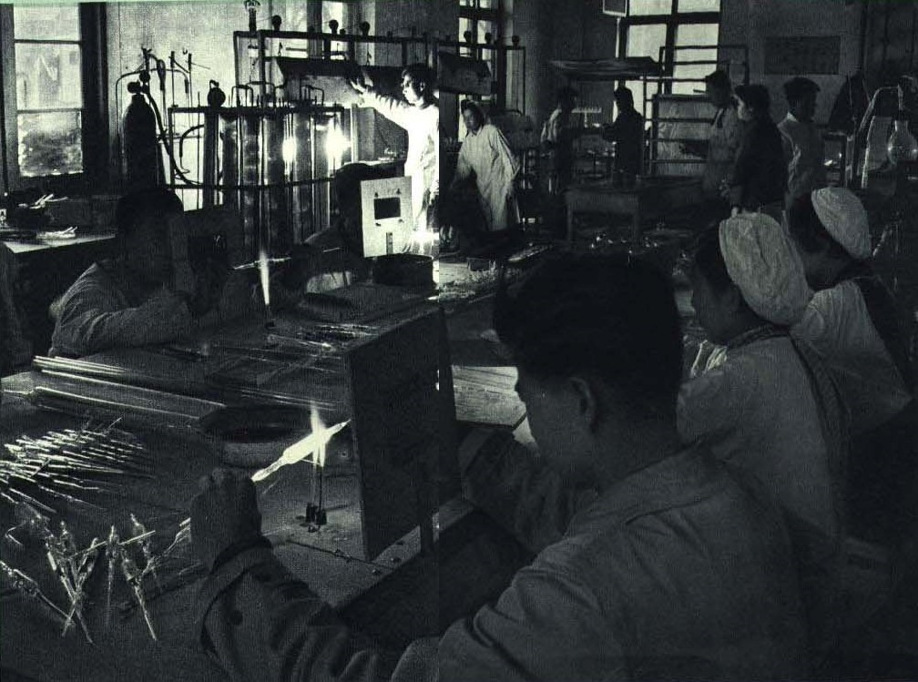 Production of high-pressure mercury vapor lamps, picture taken in Beijing, 1965